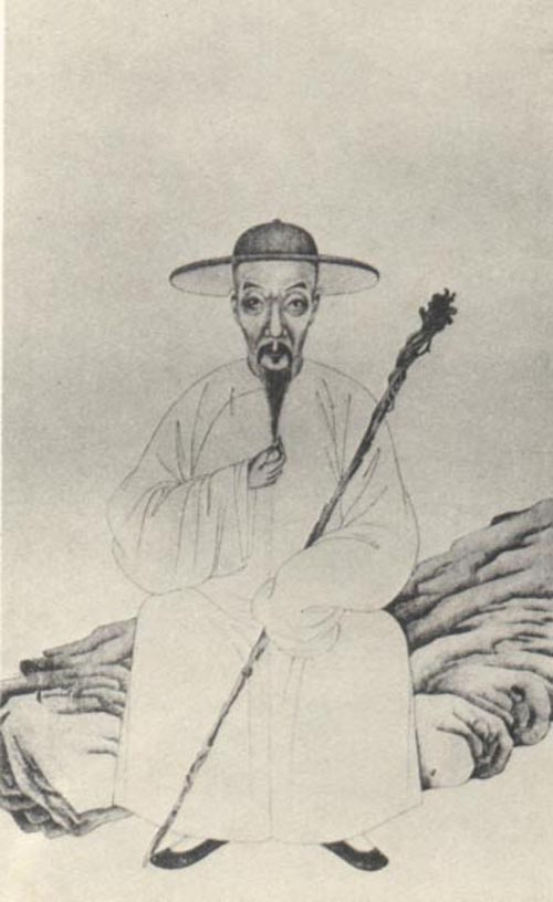 YU Zhengxie, scholar of the Qing Dynasty.